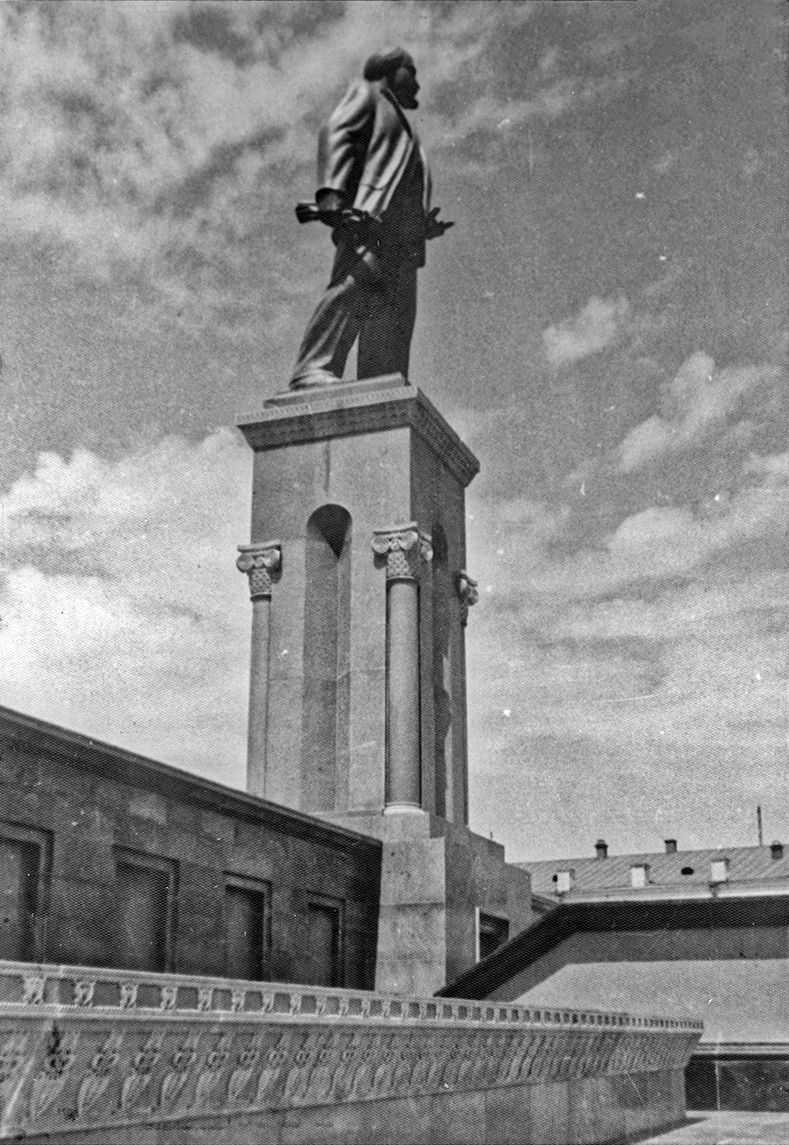 Lenin Statue in Yerevan Lenin Square